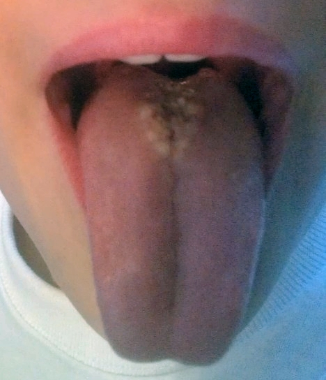 Median Glossitis on 9 year old